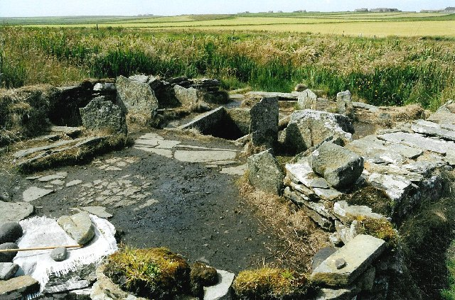 Ancient house at Liddle. Remains of an ancient house, uncovered beneath the 'burnt mound' (directly behind you from this viewpoint) - perhaps the remains of the mechanism used for boiling water in the big 'tub' in the centre of the house. On the same farmland as the Tomb of the Eagles, and part of the tour...